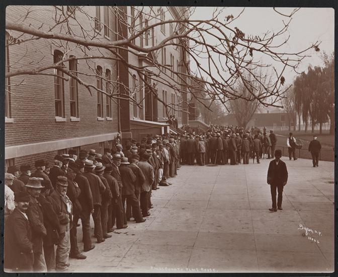 A line outside of the Brooklyn Almshouse from 1900.